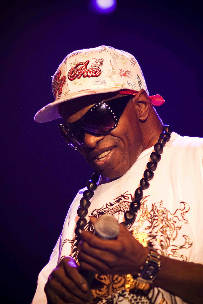 Sly Stone at the Northsea Jazz festival 2007